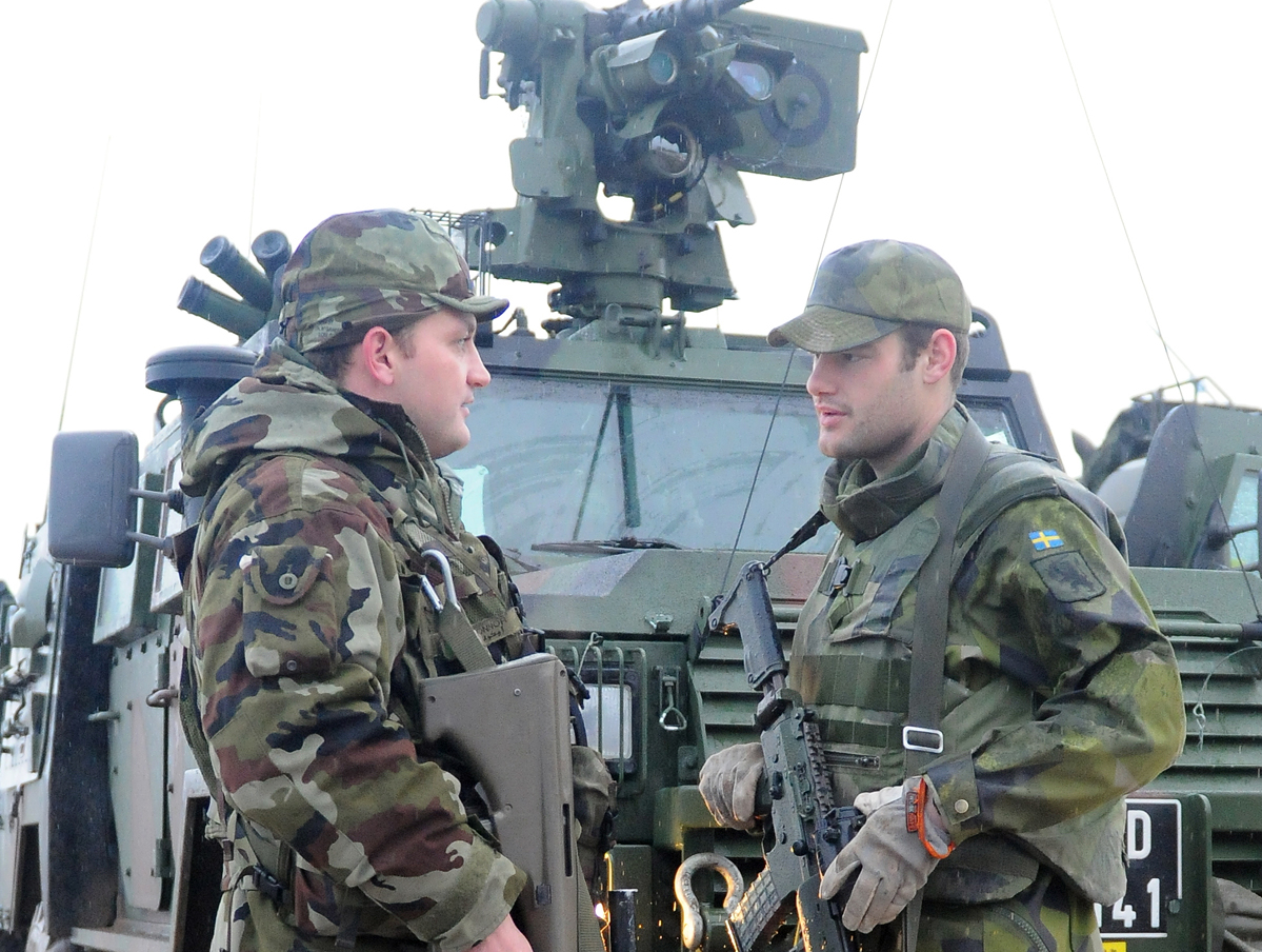 Nordic Battle Group